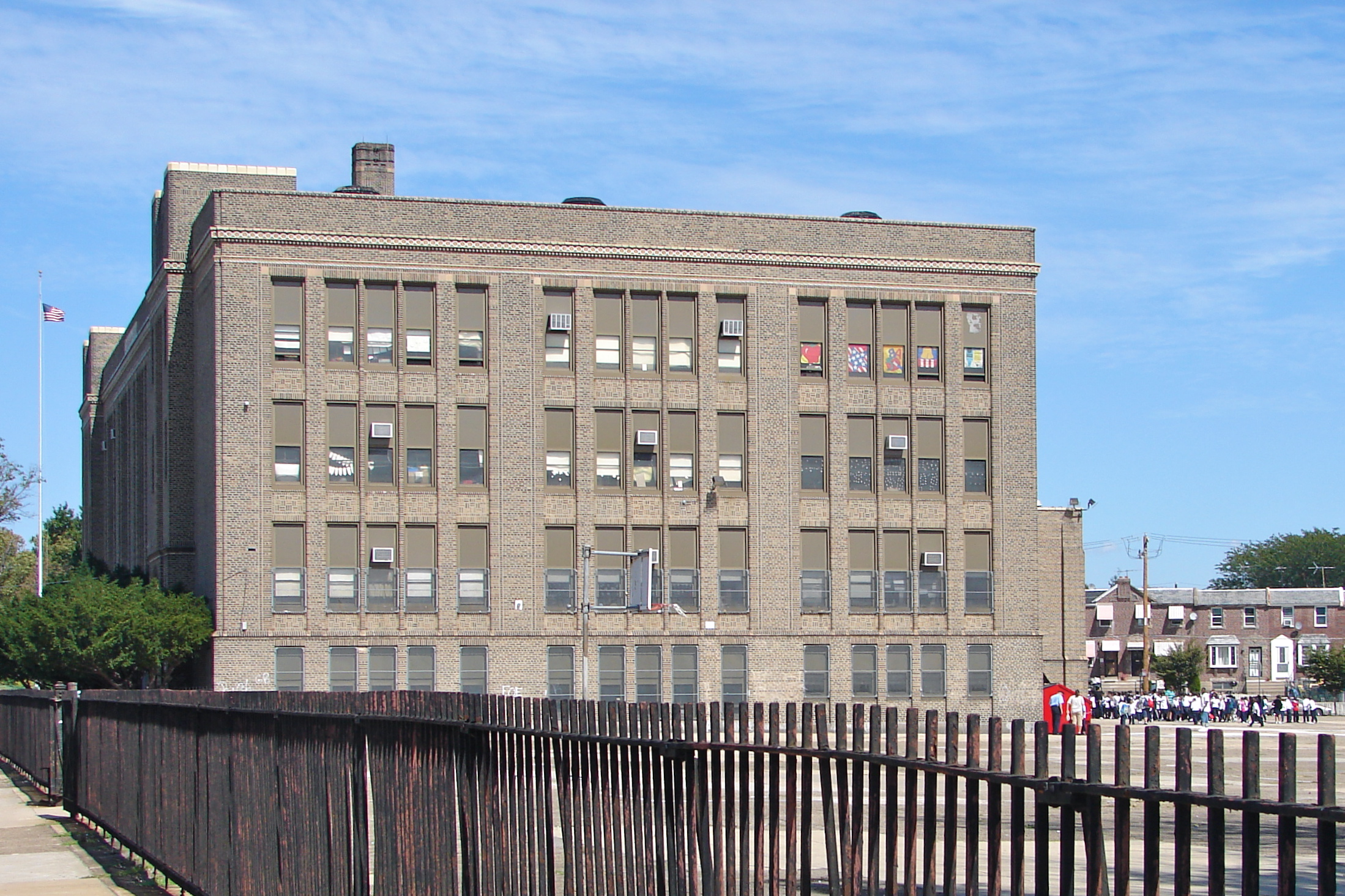 James J. Sullivan School in Philadelphia on the NRHP since November 18, 1988. At 5300 Ditman Street in the Frankford neighborhood of NE Philly.